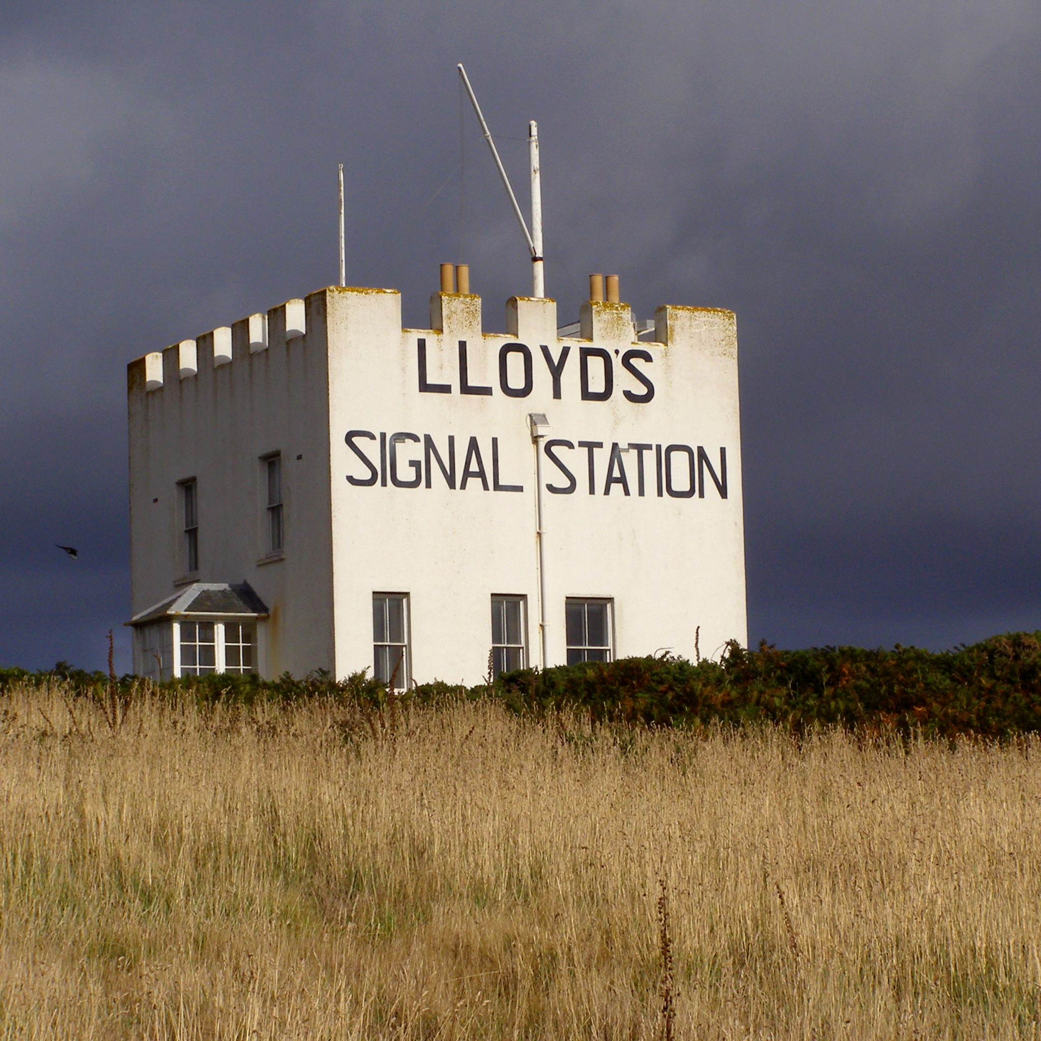 Lloyd's Signal Station at Bass Point, Lizard, Cornwall, U.K.